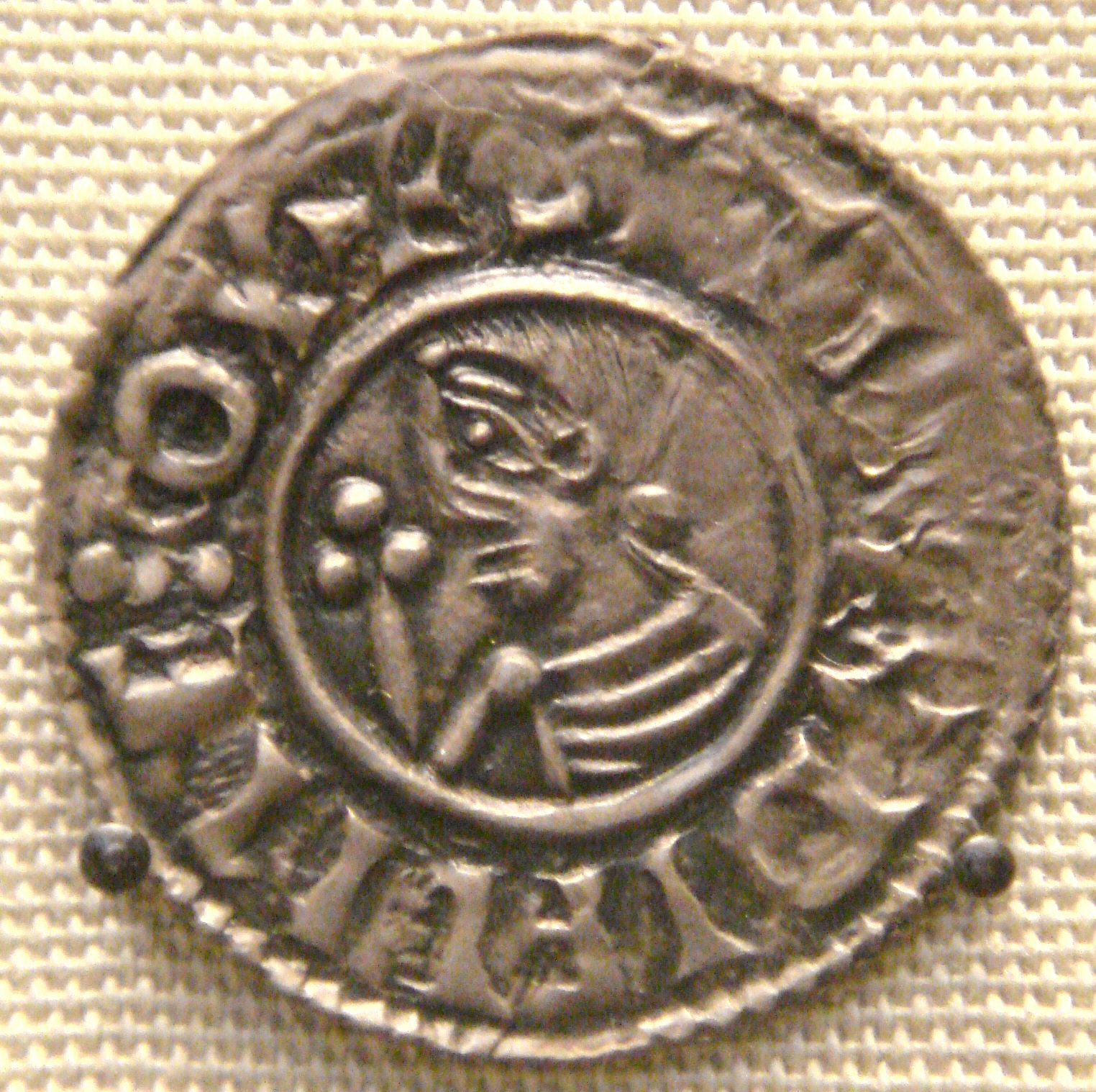 coin: Sihtric 989 1036 ruler of Dublin